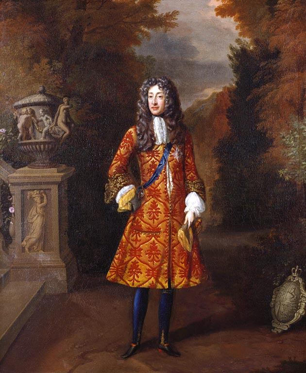 Portrait of James II of England. Oil on canvas. 104.7 x 86.4 cm